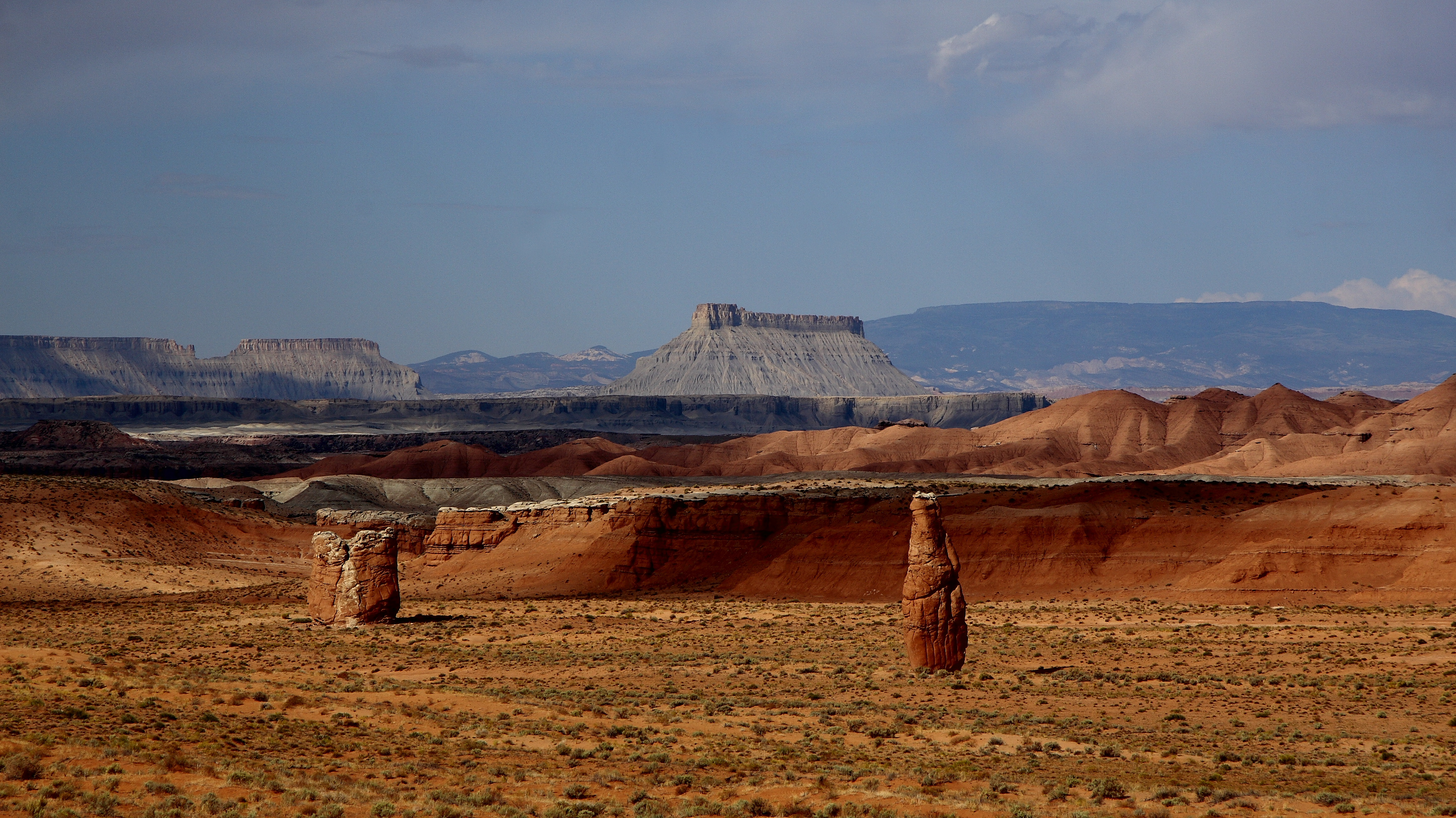 photo taken north of Hanksville, Utah --------- on Rt 24